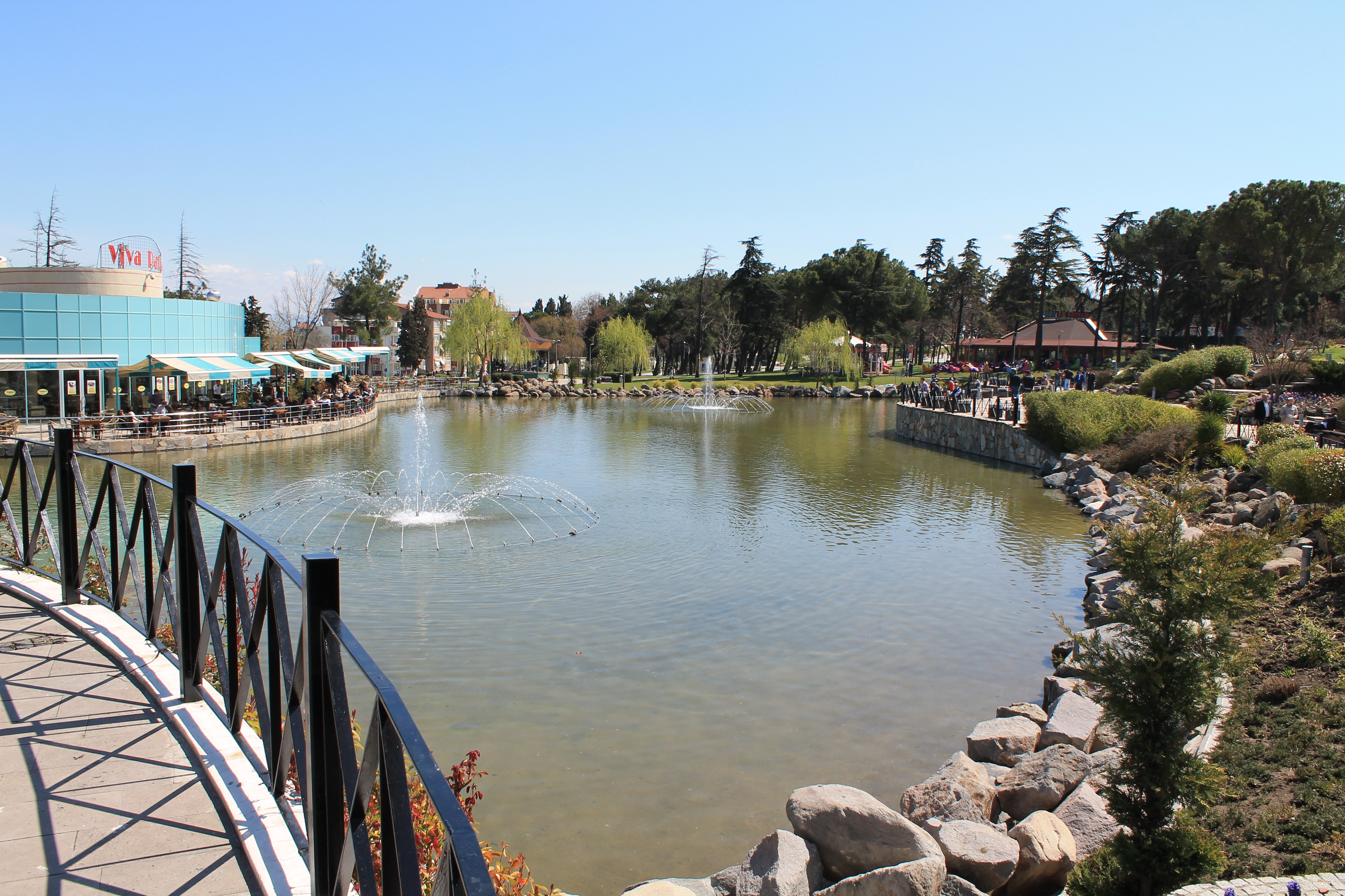 Park Atatürk, BalıkesirTürkçe: Atatürk Parkı, şehrin ana parkı, Balıkesir